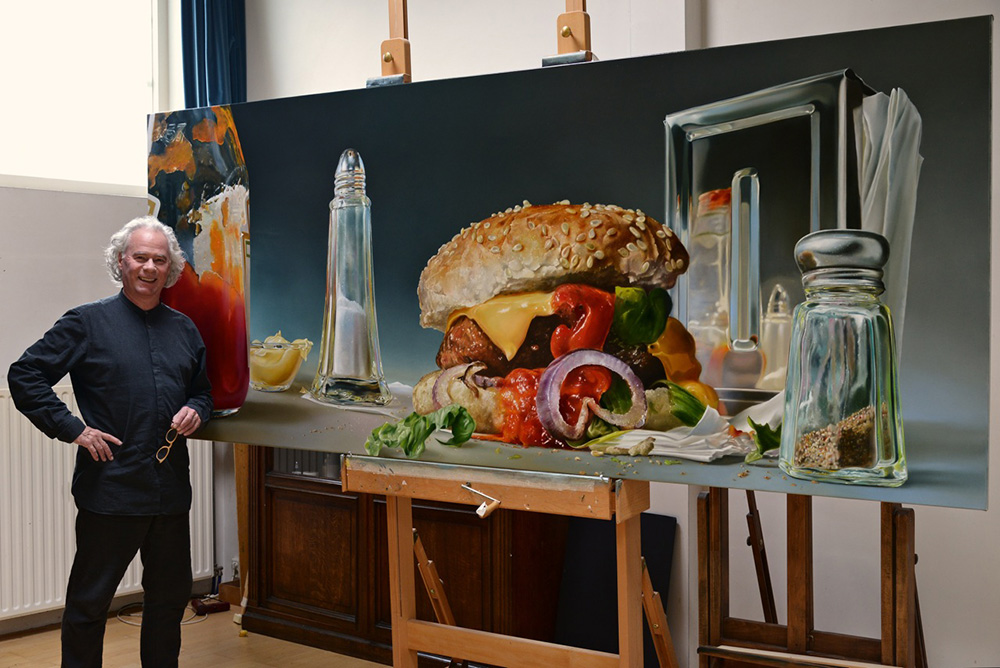 Tjalf Sparnaay with one of his megarealistic paintings, of a cheeseburger with tomato.